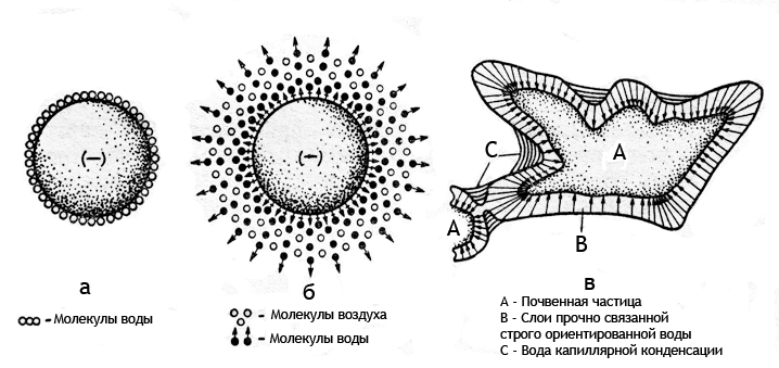 The scheme of a structure of a maximum-hygroscopic water according to various authors